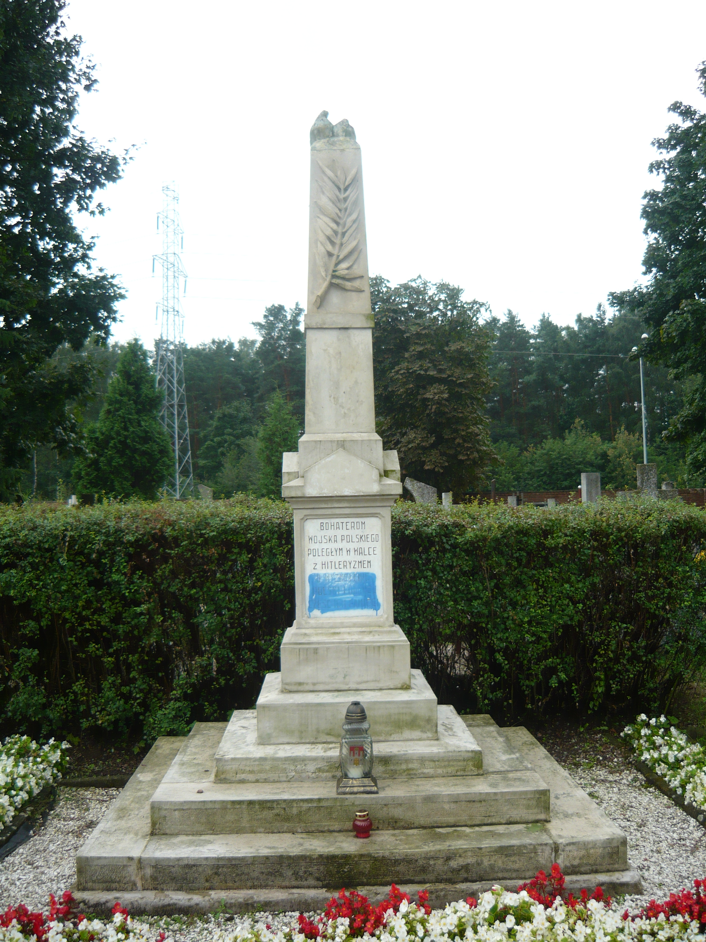 The monument of the soliders who fought with nazis, Włocławek's graveyard.